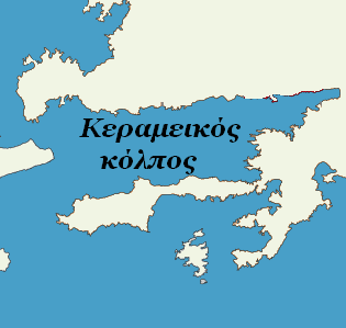 Ceramic gulf